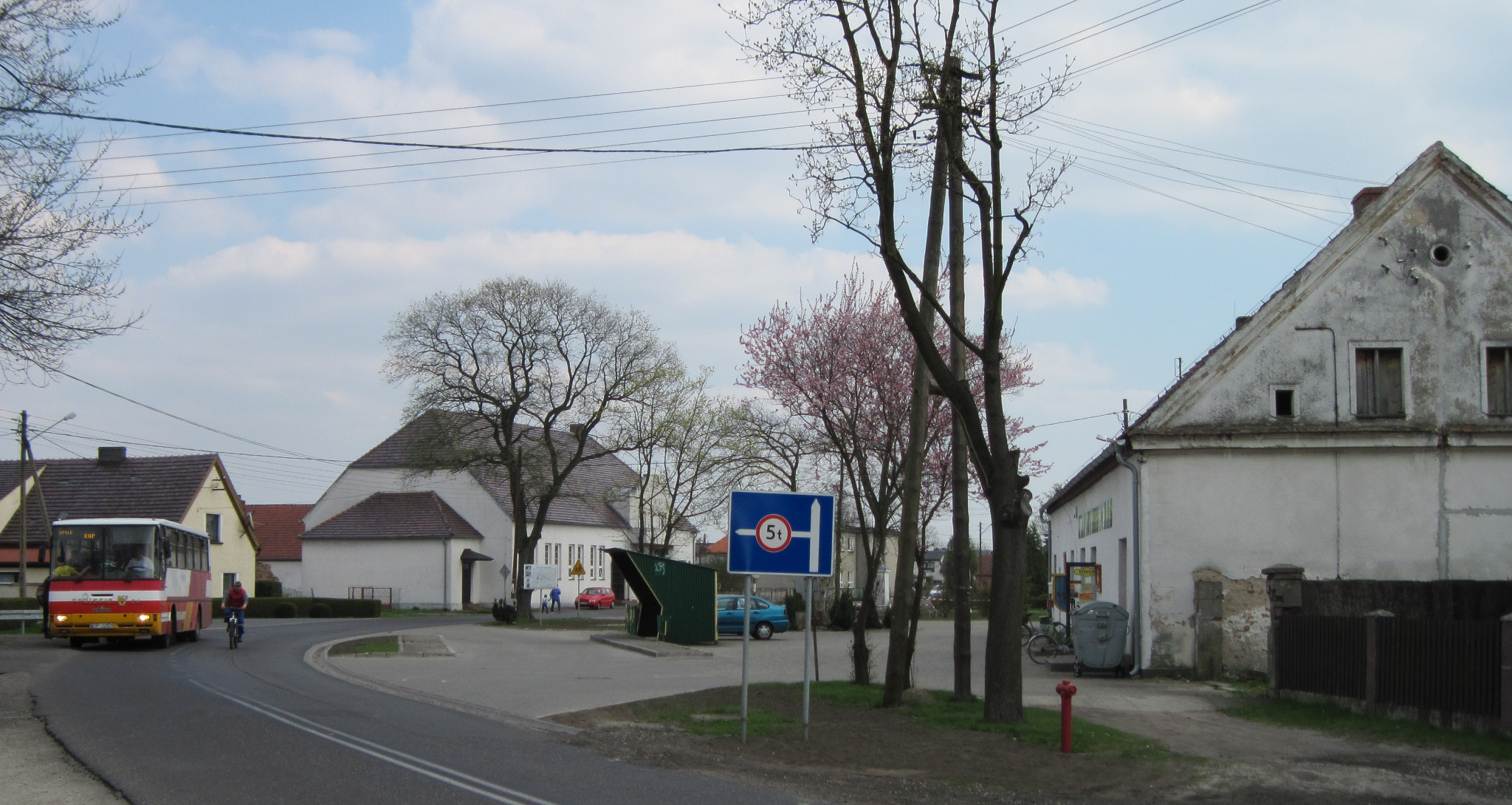 PKS bus on the bus stop „Brynica,centr.” in Brynica centrum